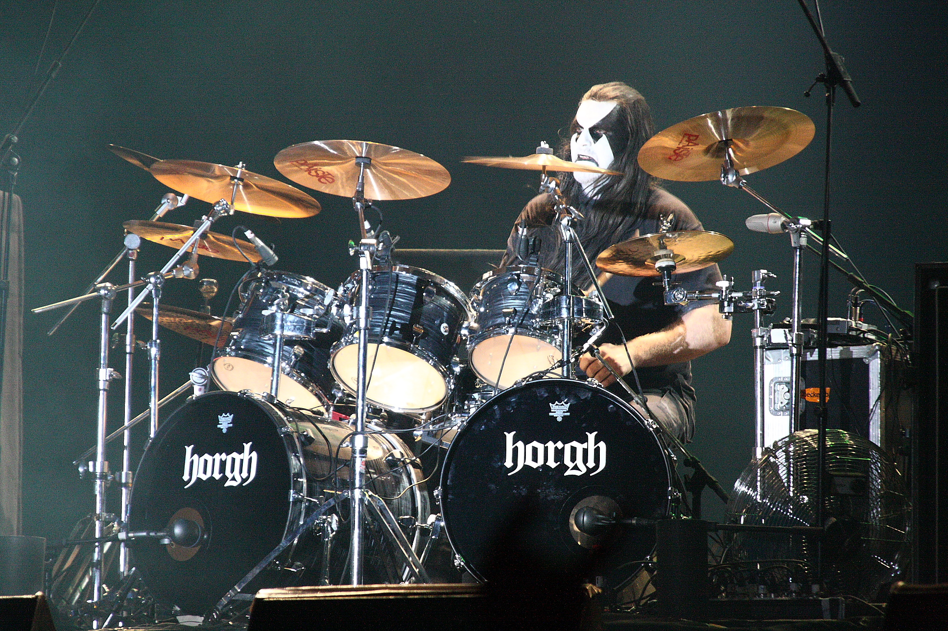 Horgh during Immortal concert at the 2009 MetalWay fest